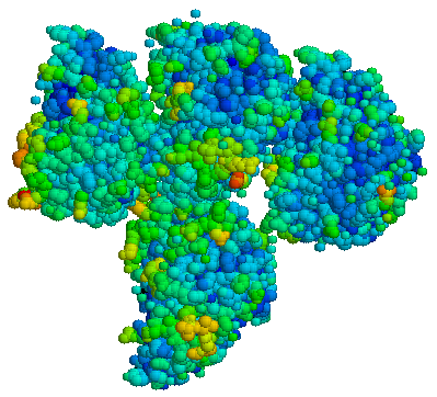 Plasmin (plasminogen) active domain drawn from in Rasmol, MS Paint and MS PhotoEditor by JFW | T@lk